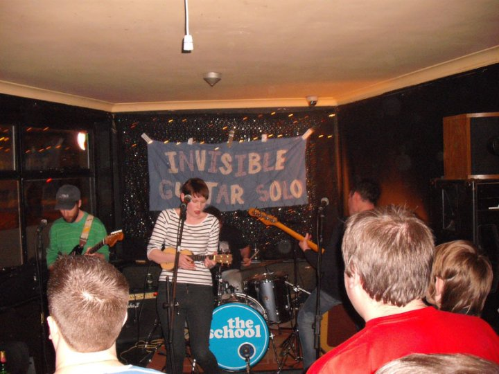 Indie-pop band Allo Darlin' playing at the Stock Room, Sheffield, March 2010